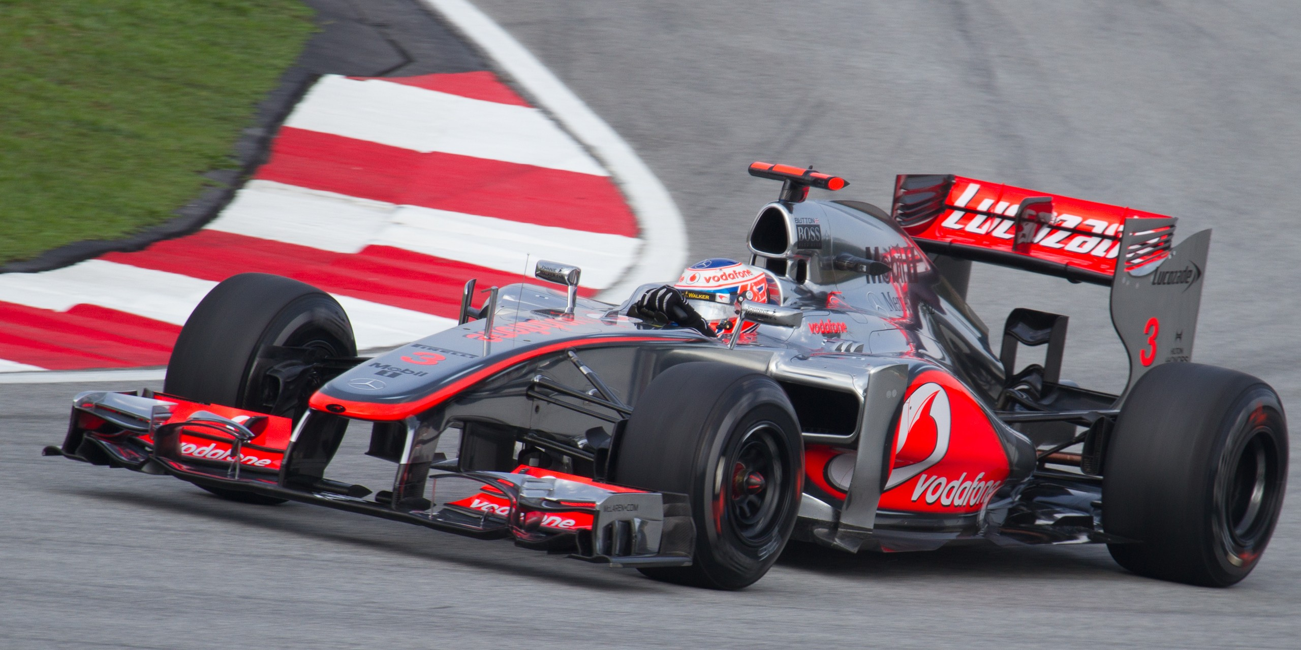 Formula One 2012 Rd.2 Malaysian GP: Jenson Button (McLaren) during the qualify session on Saturday.